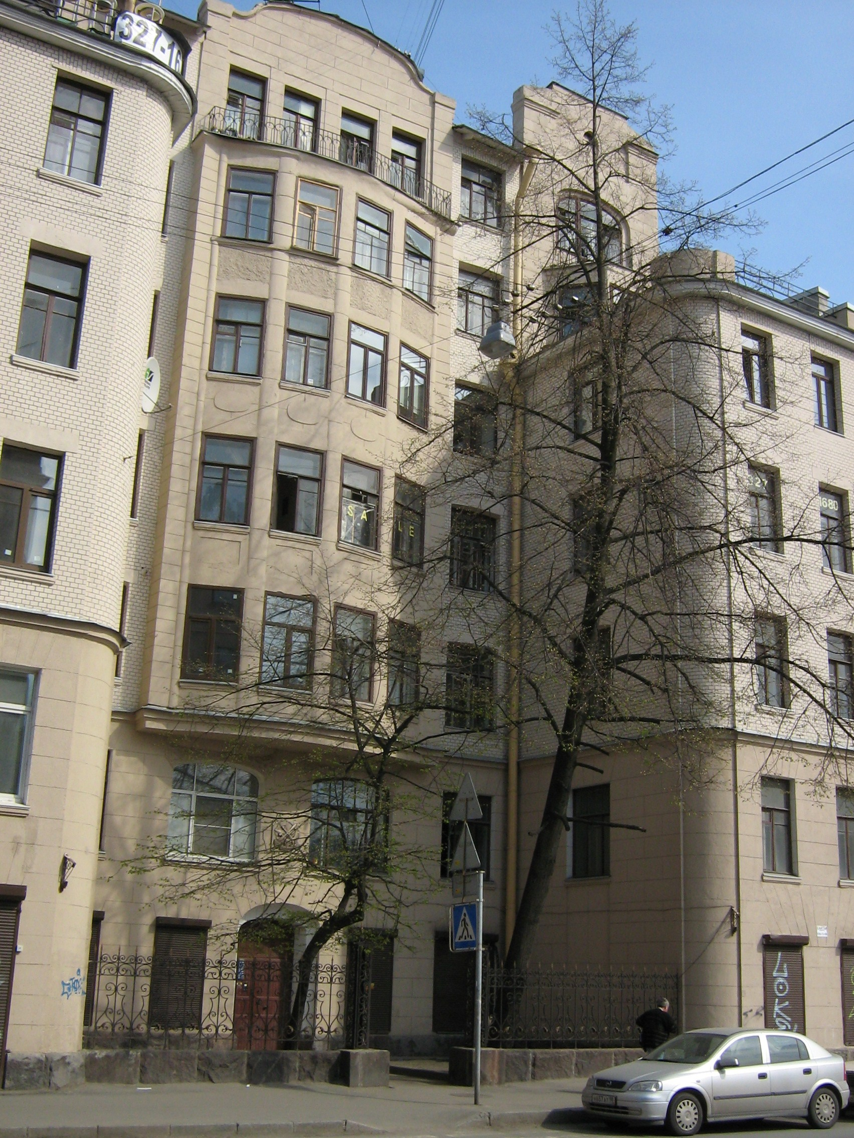 15, Kronverkskaya Street in Saint-Petersburg, architect Wilhelm (Vassili Vassilievitch) Schaub, 1912.